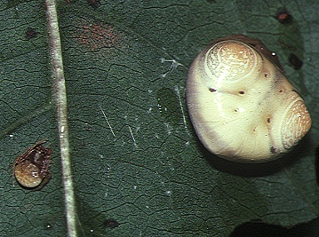 male and female Cyrtarachne inaequalis from Okinawa.